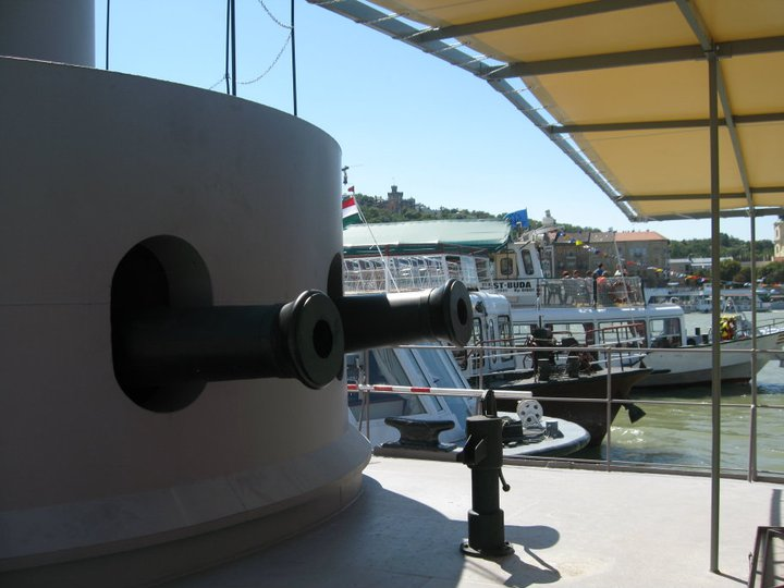 The two large-calibre Wahrendorf-type cannons